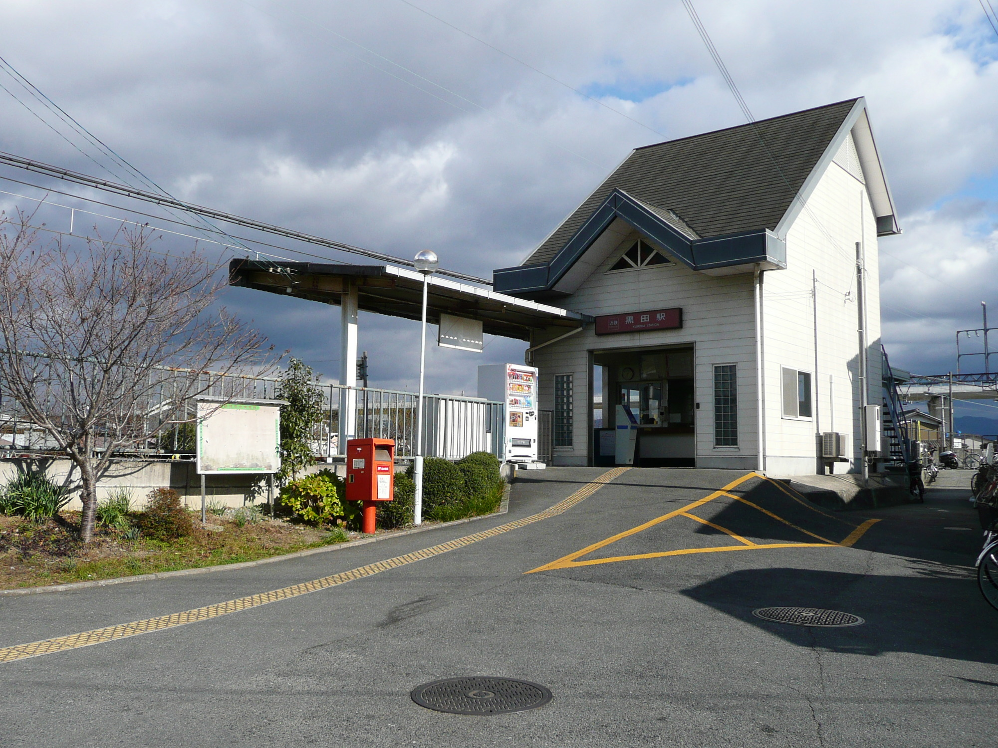 Kinki Nippon Railway,Tawaramoto Line,Kuroda Station.